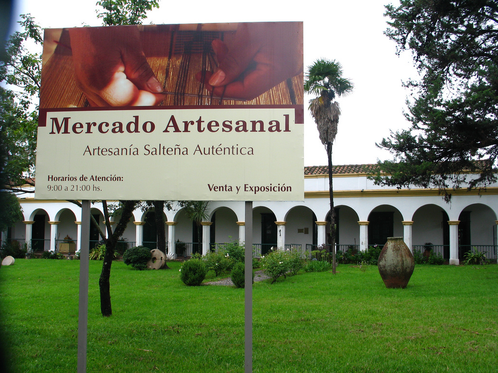 Mercado Artesanal de Salta (Argentina)